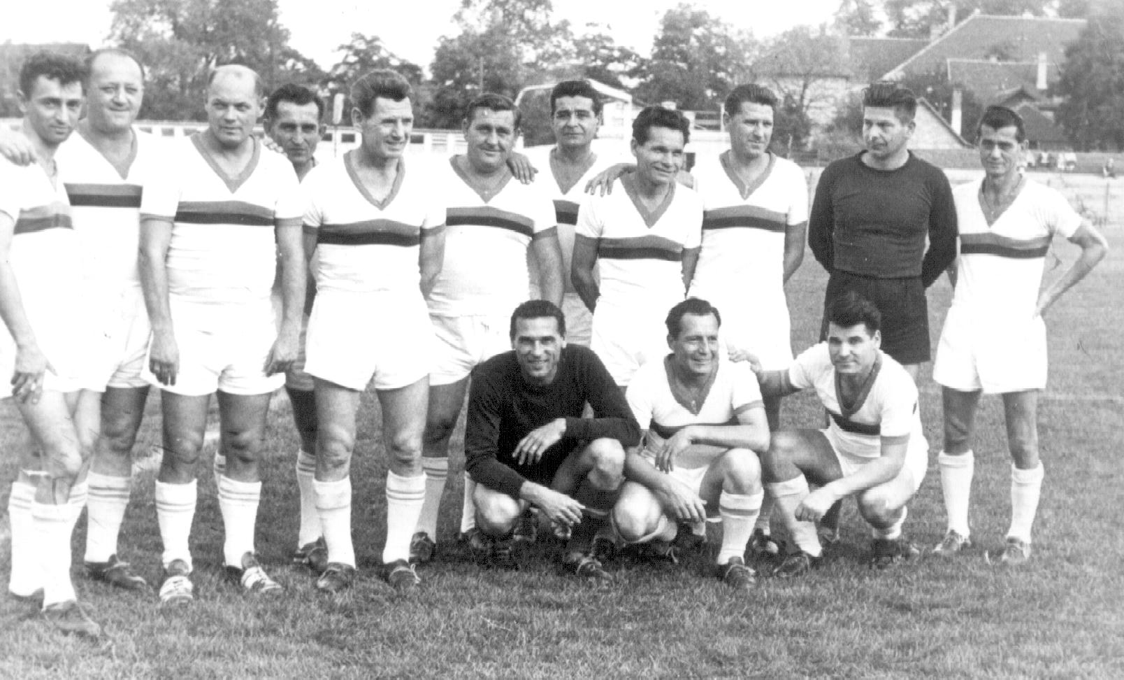 The old boys soccer team of Dorog